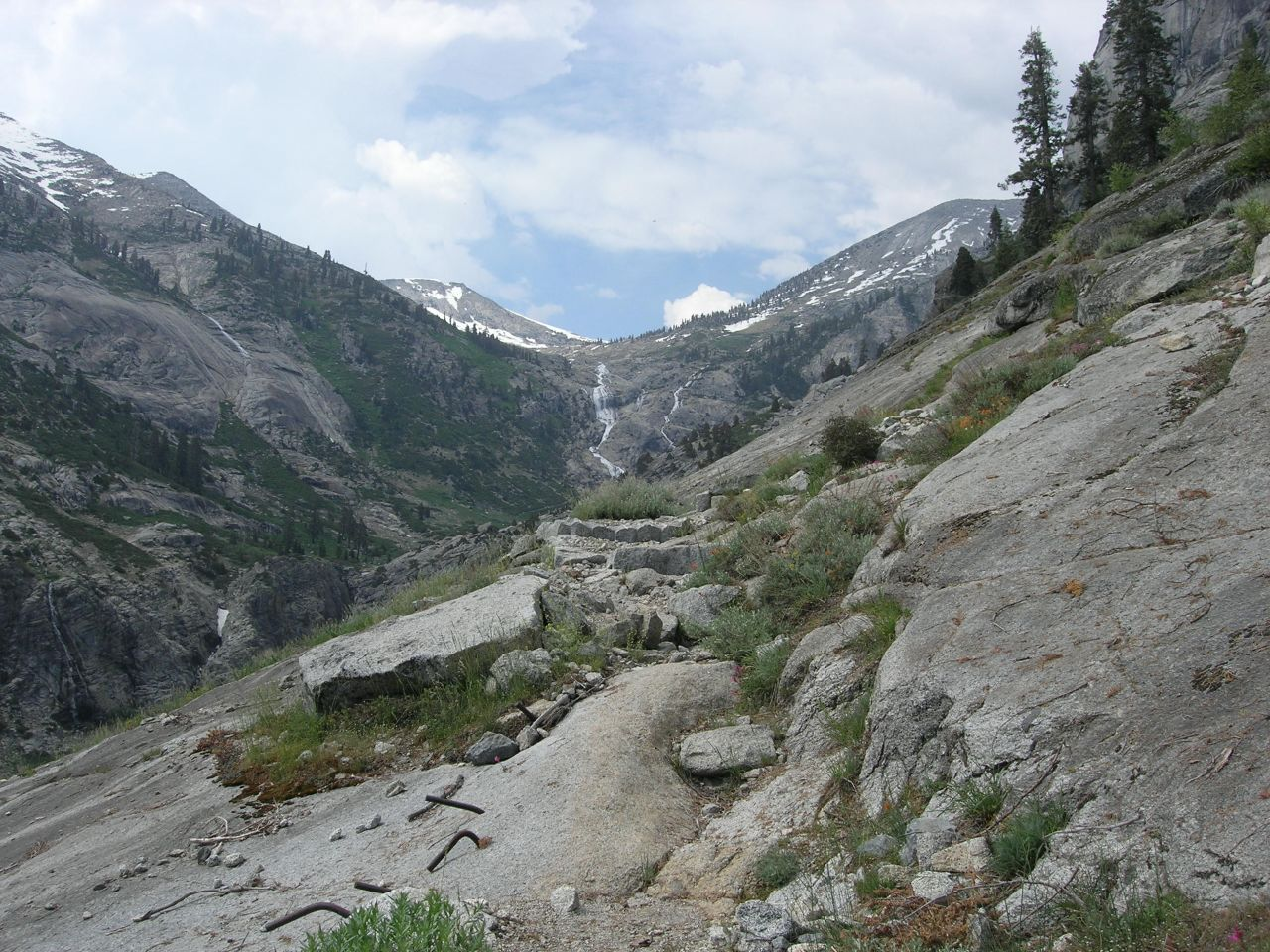 The High Sierra Trail, near the Great Western Divide, Sequoia National Park, Sierra Nevada, California.